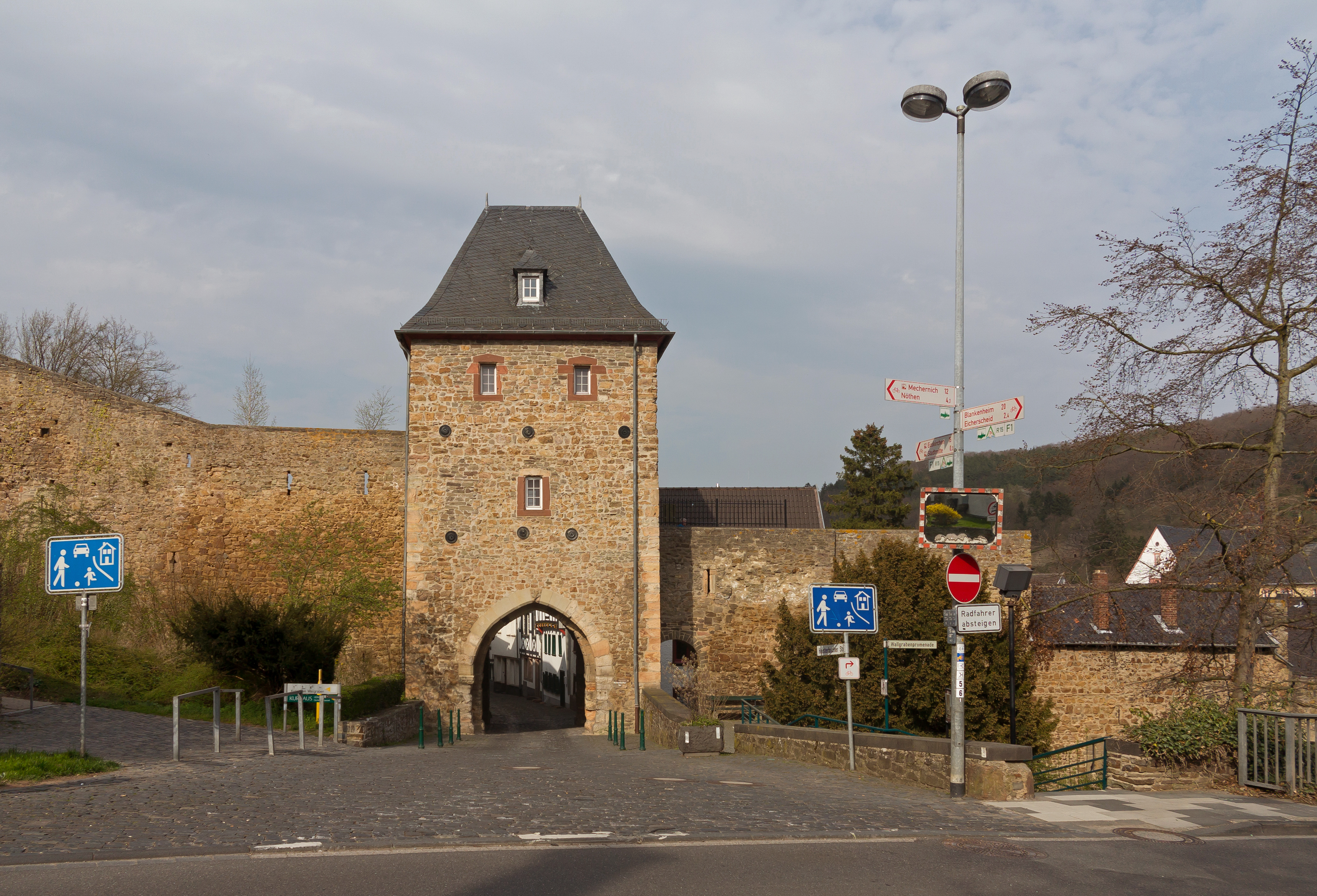 Bad Münstereifel, town gate: der Heisterbacher Tor